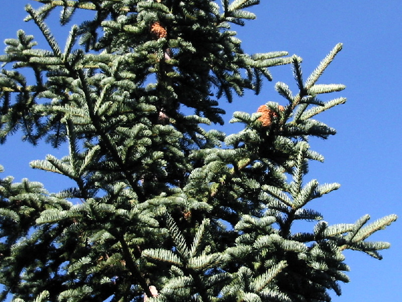 Abies magnifica Description: Shasta Red Fir, Abies magnifica subsp. shastensis, foliage Viewpoint location: Soda Mountain Road about 1.3 km east northeast of Soda Mountain. Lat/Long: 42.0683°N, 122.4660°W (WGS84/NAD83) USGS Soda Mountain Quad [1] Viewpoint elevation: 5410' View direction: Northeast Date and time: 2005.10.22 14:58:10 PDT Camera: Canon PowerShot S110 Photographer: Walter Siegmund ©2005 Walter Siegmund